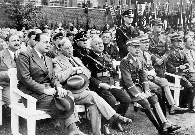 Rt. Hon. W.L. Mackenzie King (second from left) at the opening ceremonies of the All-German Sports Competition, Olympic Stadium